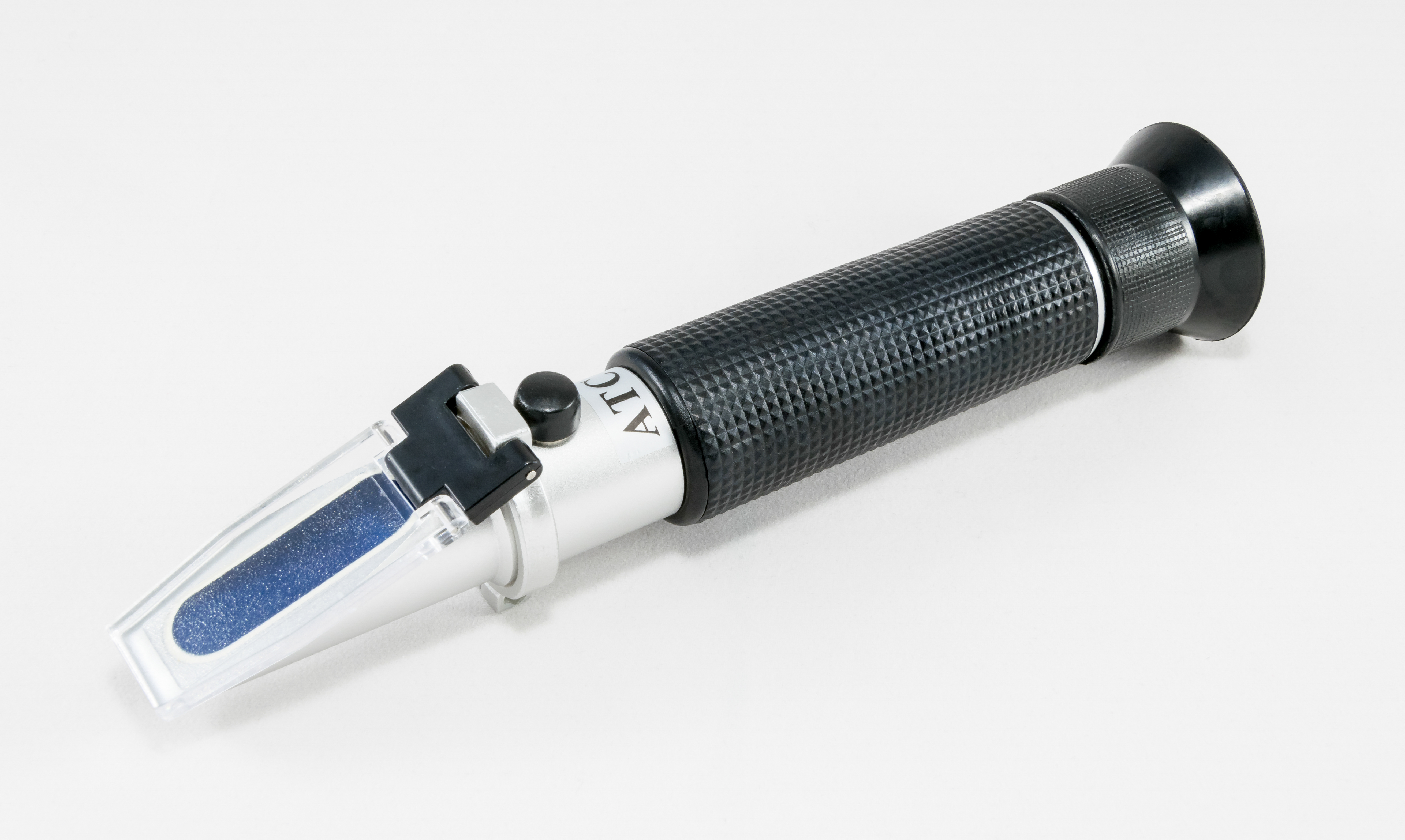 Refractometer